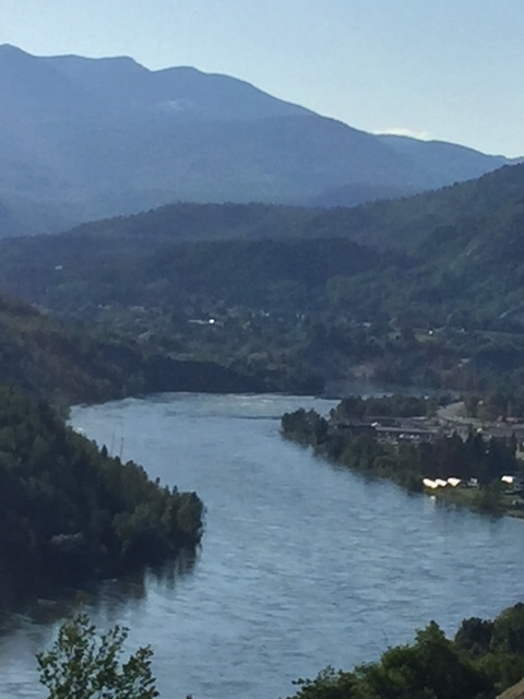 View of Trail BC looking north